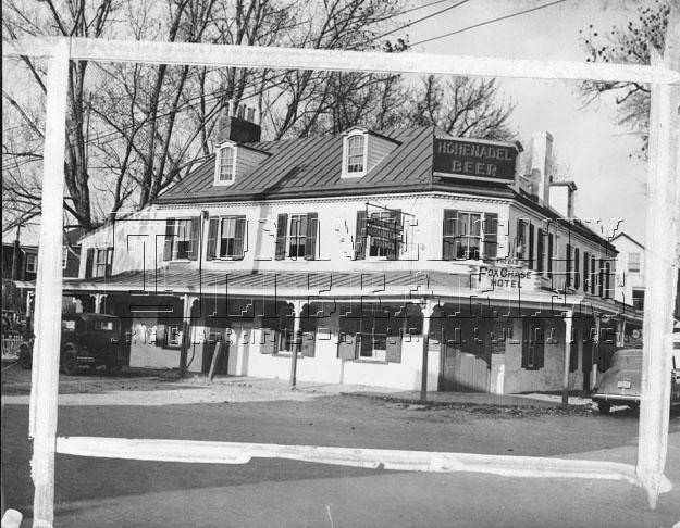 . Image shows the exterior of the Old Fox Chase Hotel, long a familiar landmark at the bending intersection of Oxford Avenue and Pine Road, near Rhawn. The hotel, built in 1705, developed a thriving stage coach business with the opening of the Fox Chase and Huntingdon Turnpike in 1848. Before 1870 it was owned by Elijah Hoffman, who operated it for many years. The hotel was sold and razed in 1940 to make way for a gasoline station. The photo was reprinted by the Evening Bulletin on April 1, 1967